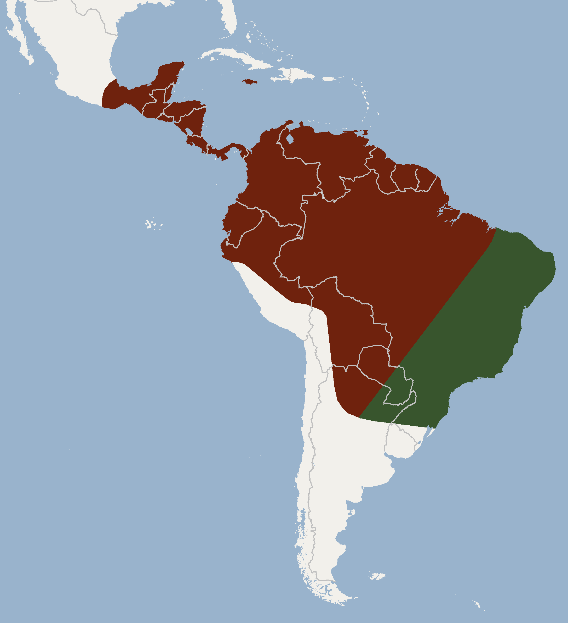 According to Best & Al., 2002